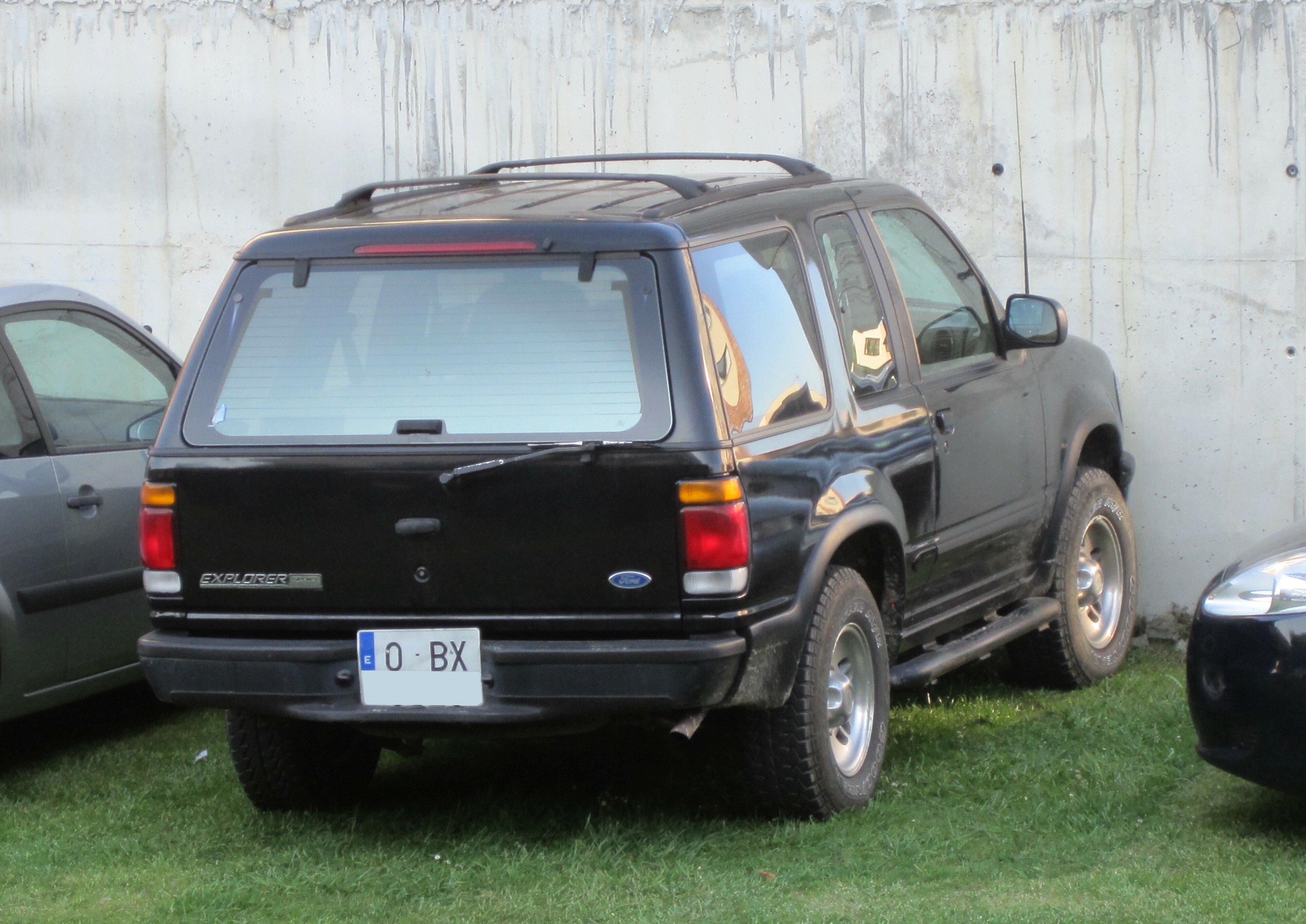 So nice! If I recall correctly this is the very first Explorer Sport I ever see. 1998 plates from Oviedo (Asturias) seen in Llanes (Asturias).